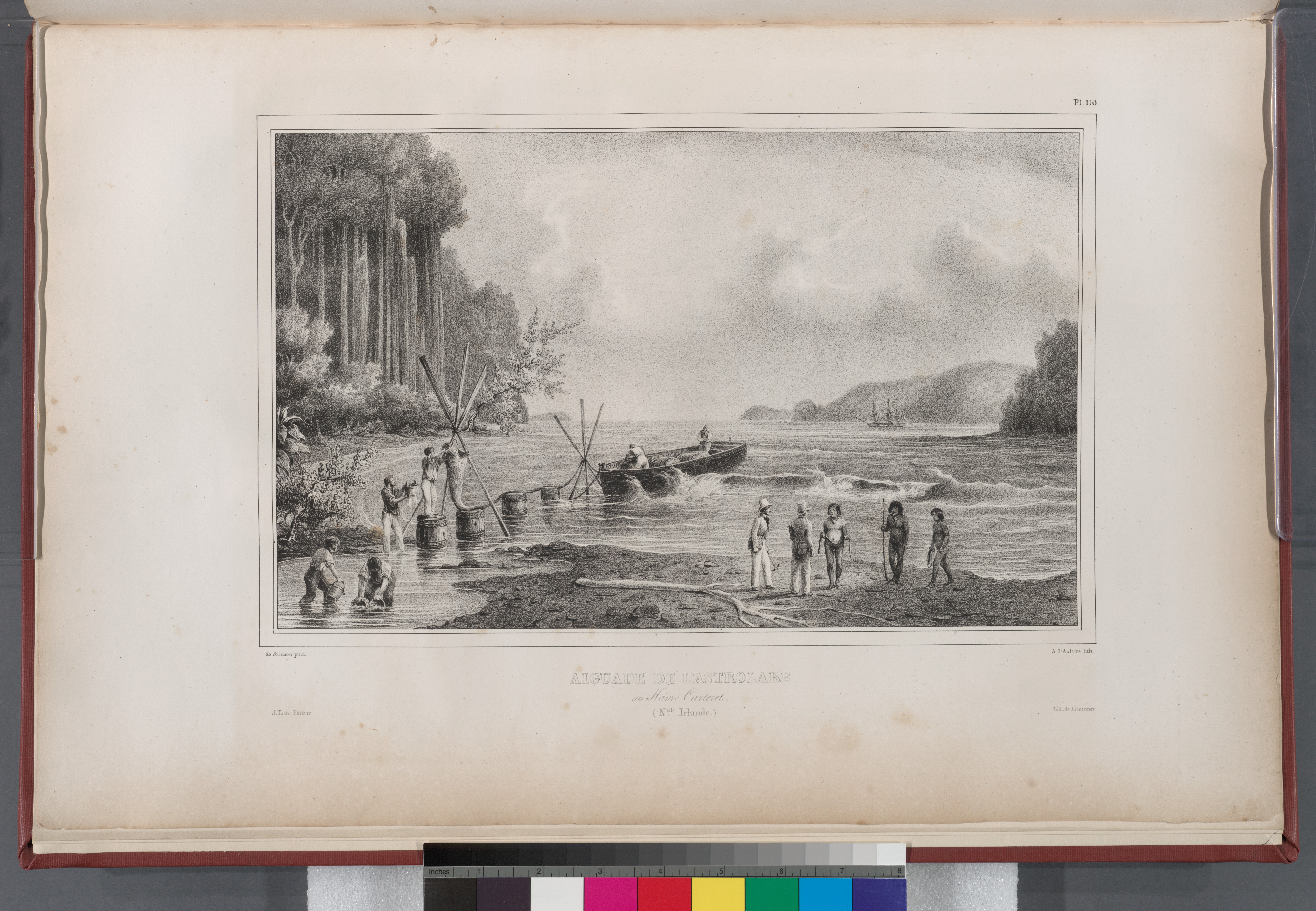 Aiguade de l' Astrolabe. au Hâvre Carteret. (Nelle. Irlande.).